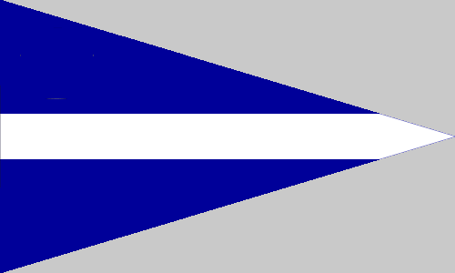 Yacht club flag